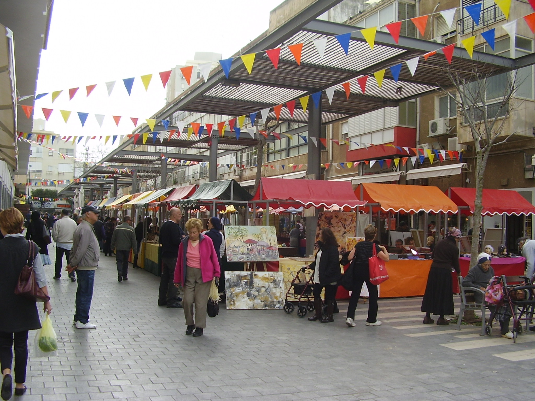 Krauze pedetstrian street in Netanya